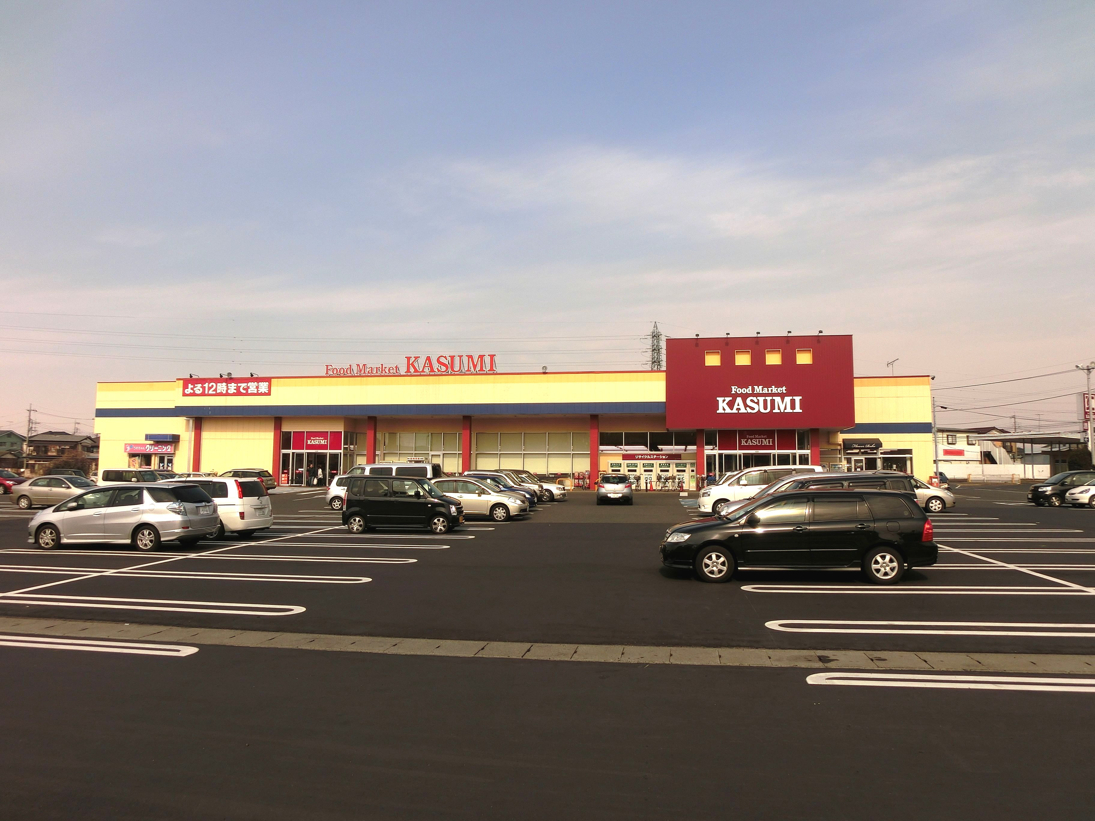 Kasumi Koga